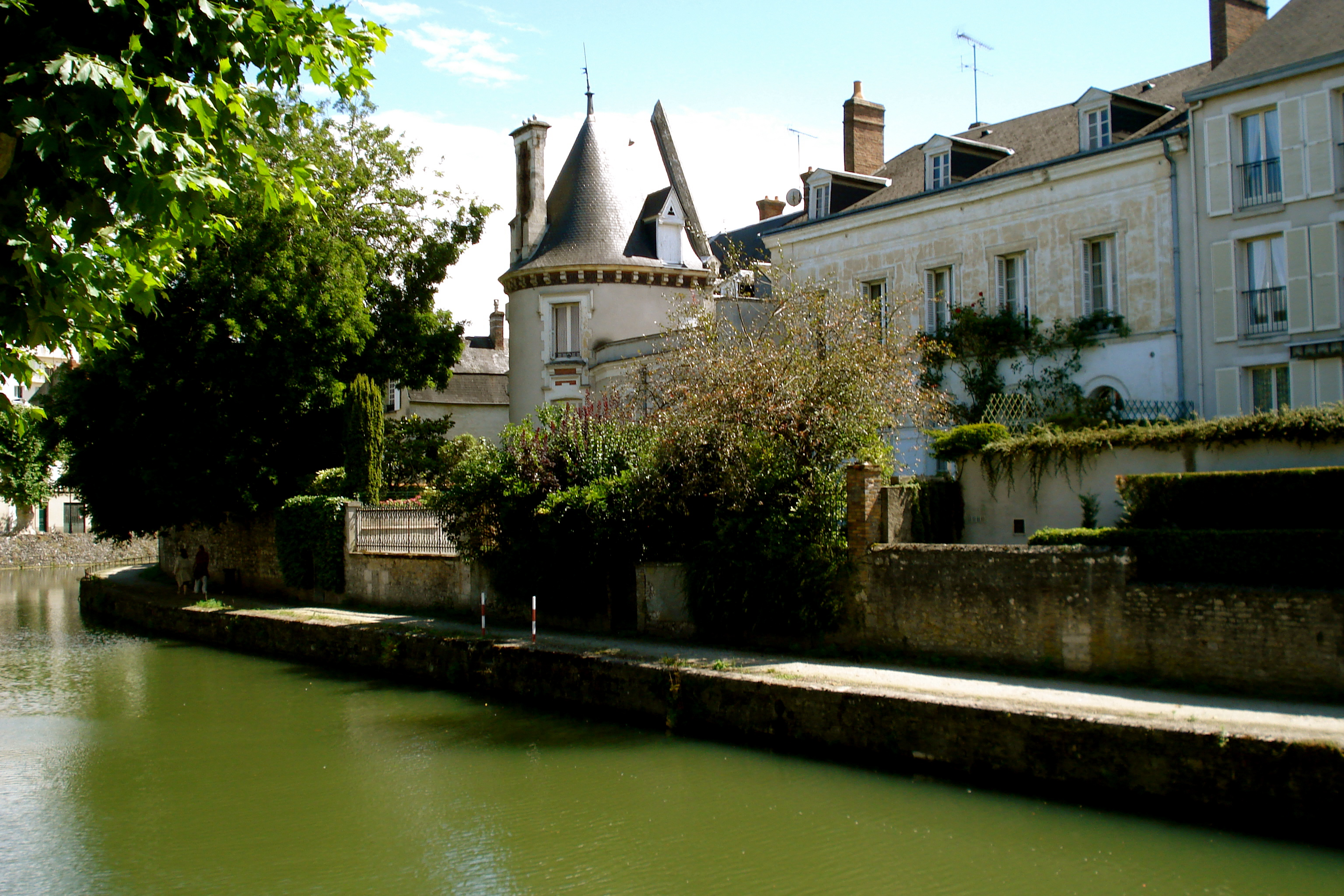 Montargis, Loiret, France. Hotel Desormeaux, built around 1770 and integrating two towers from the town wall. Seen from across the canal de Briare (standing in Bd du Rempart).